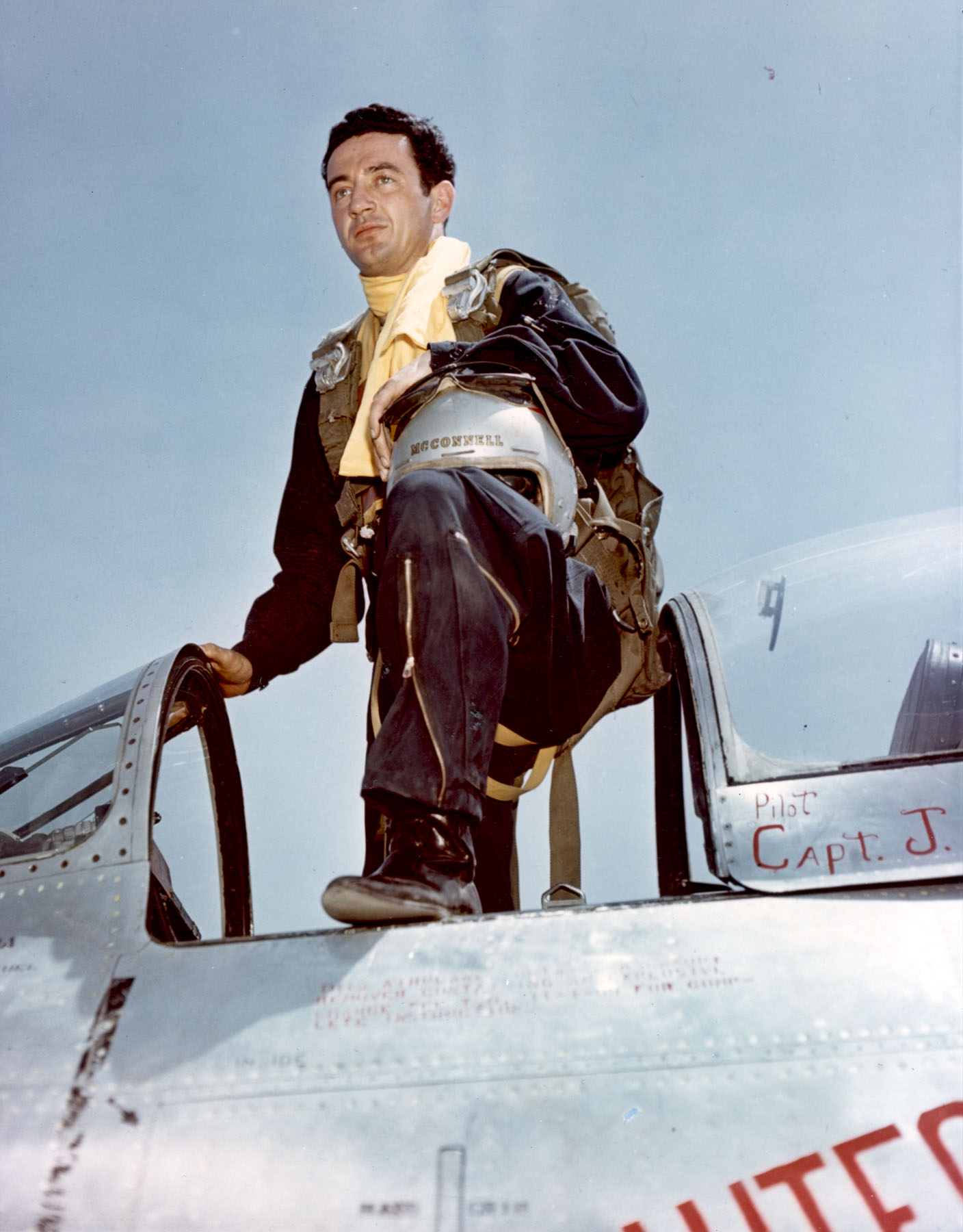 Air Force Museum Photo of McConnell following last mission